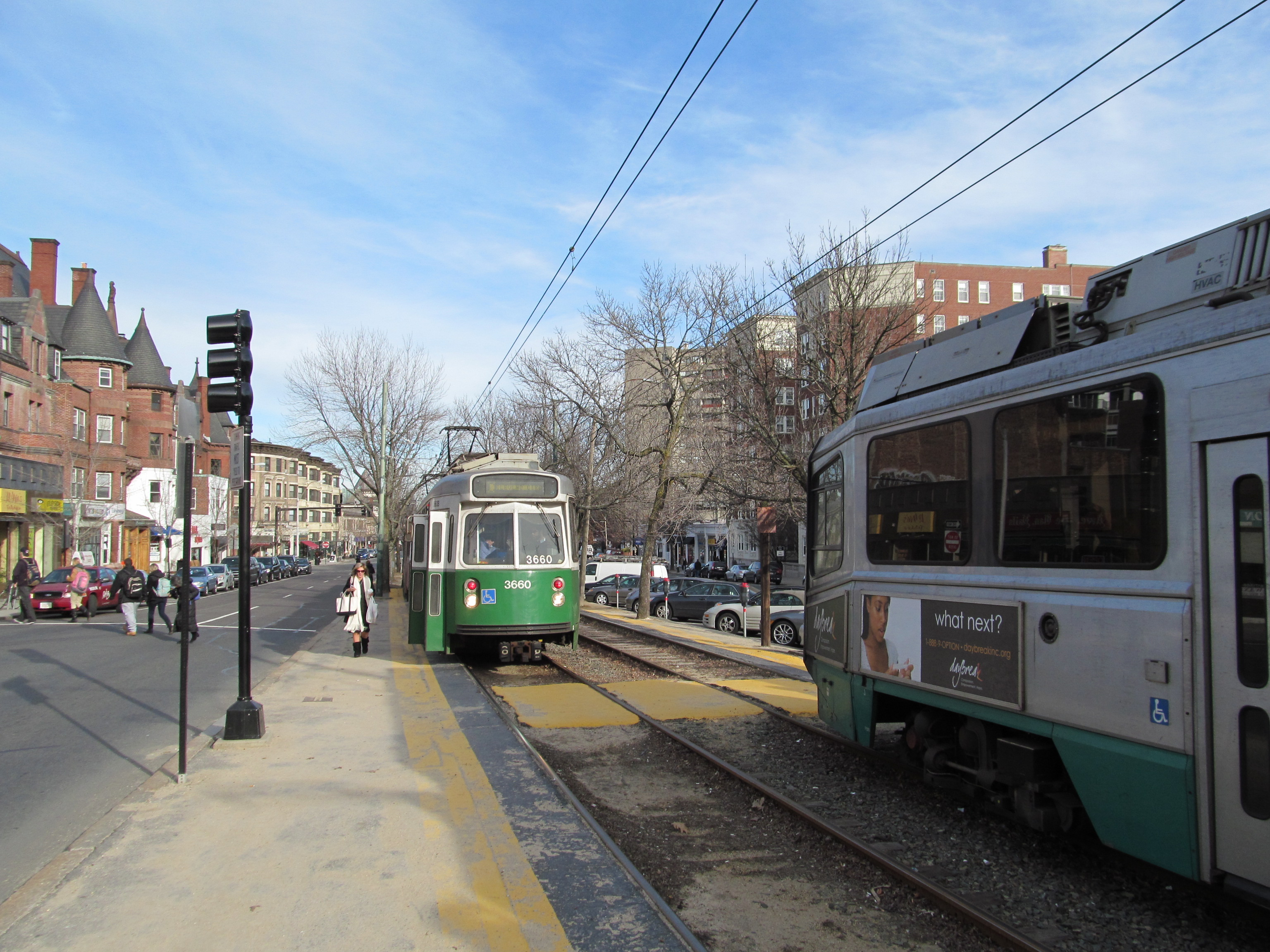 Summit Avenue MBTA station, Brookline Massachusetts